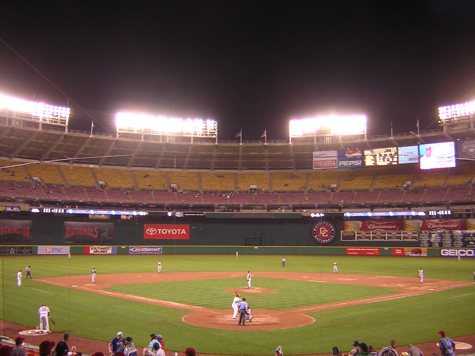 Took photo self at RFK on 29.6.2005 Licensing Category:Cookie cutter stadiums